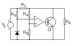 A circuit of shunt regurator with OP-amp